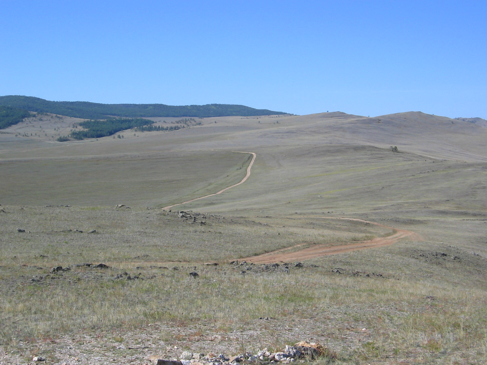 View to the SE from the surroundings of Khuzhir in the Olkhon Island, Baikal